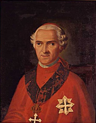 Agostino Rivarola, cardinal of the Roman Catholic Church